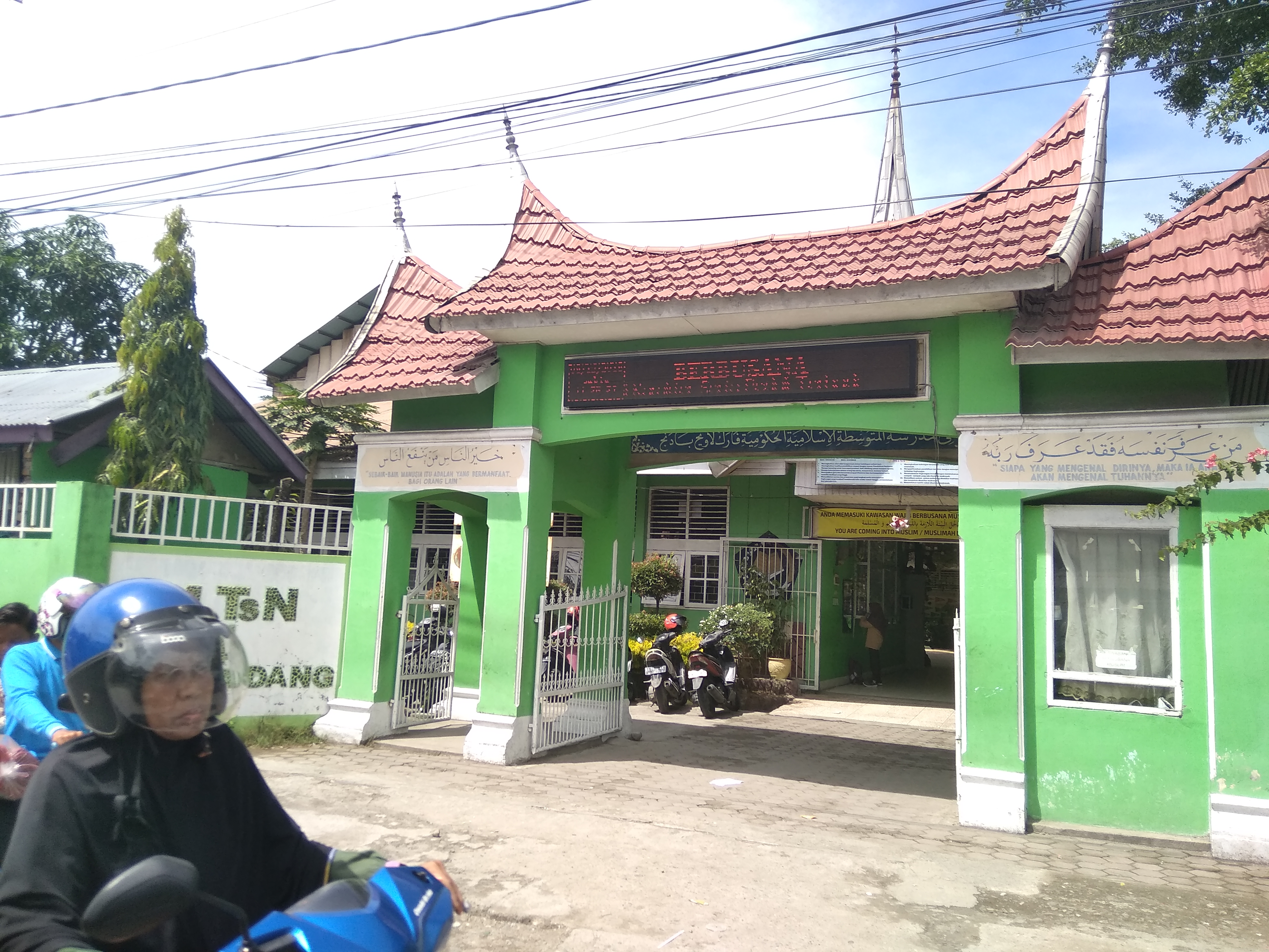 Padang City Madrasah Tsanawiyah 4 in Parak Laweh Street, Lubuk Begalung District, Padang City, West Sumatra, Indonesia